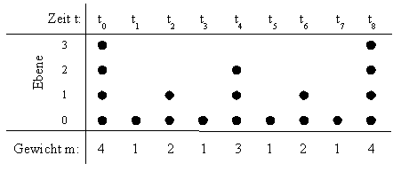 A metrical hierarchy with binary divisions